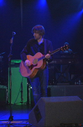 Justin Currie on stage at the Guildhall in Southampton, 16 May 2002